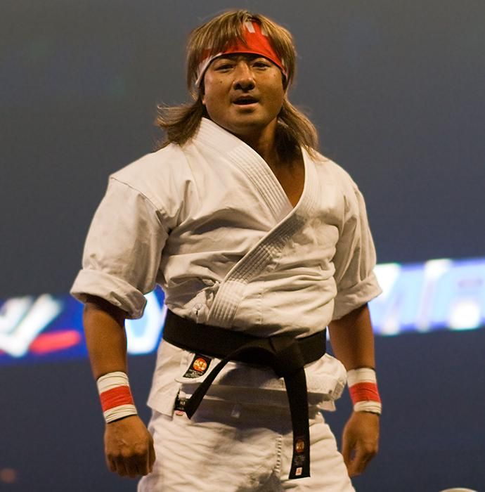 Shoichi Funaki as "Kung Fu Naki"